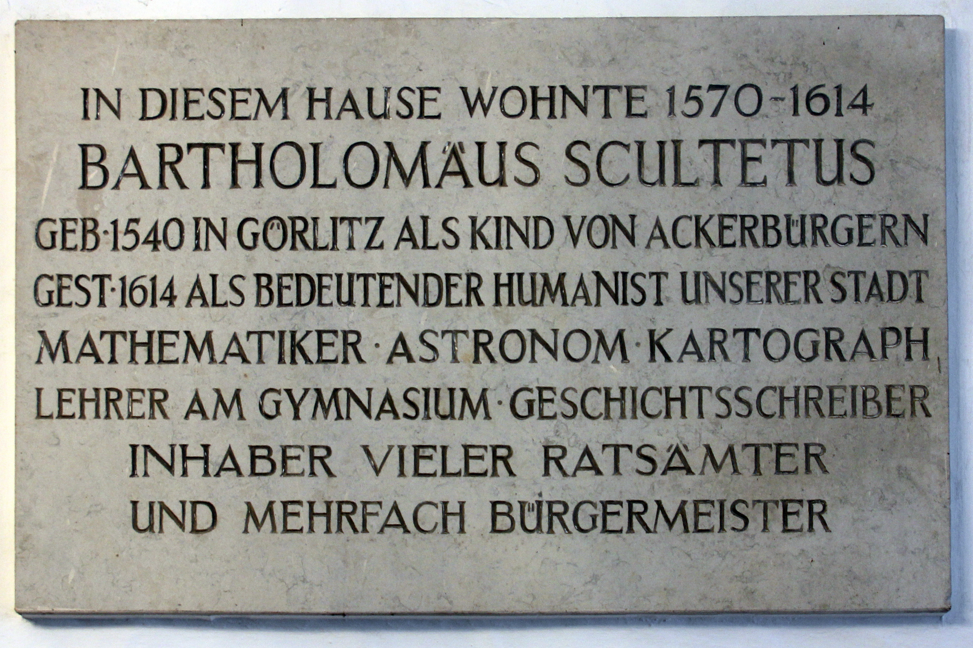 Memorial plaque, Bartholomäus Scultetus, Brüderstraße, Görlitz, Germany